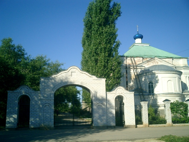 Свято-Вознесенский женский монастырь